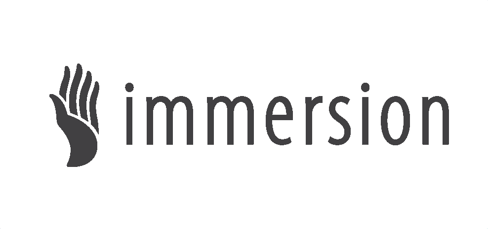 Immersion Corporation Logo